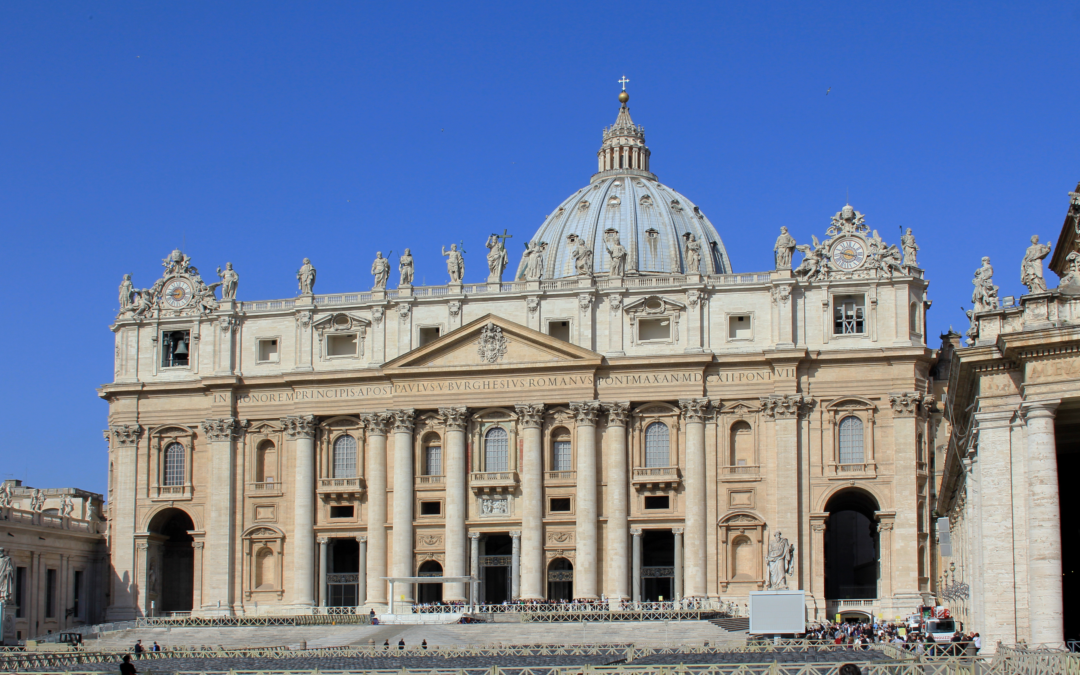 Façade of St. Peter's Basilica as seen from Saint Peter's Square